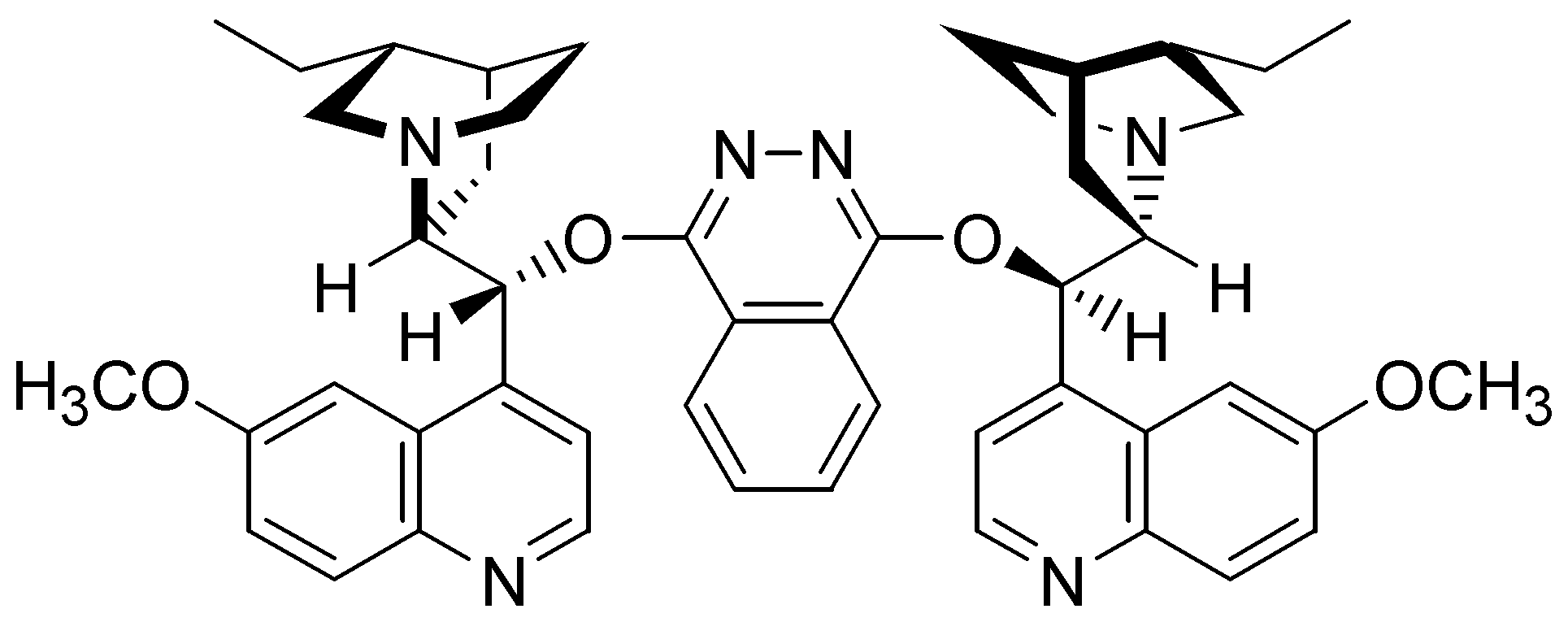 Self-made with ChemDraw